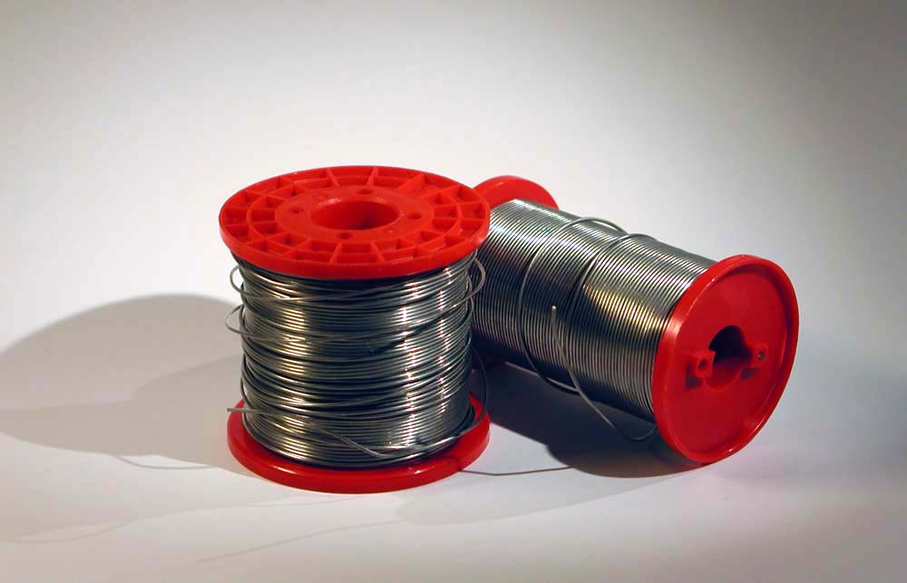 Solder